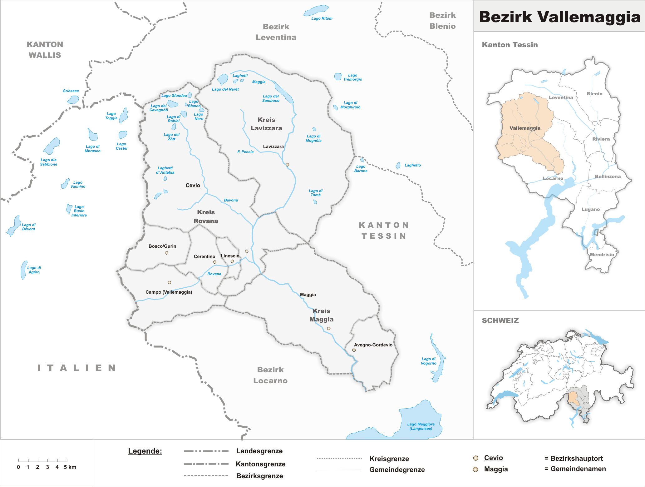 Municipalities in the district of Vallemaggia 2008